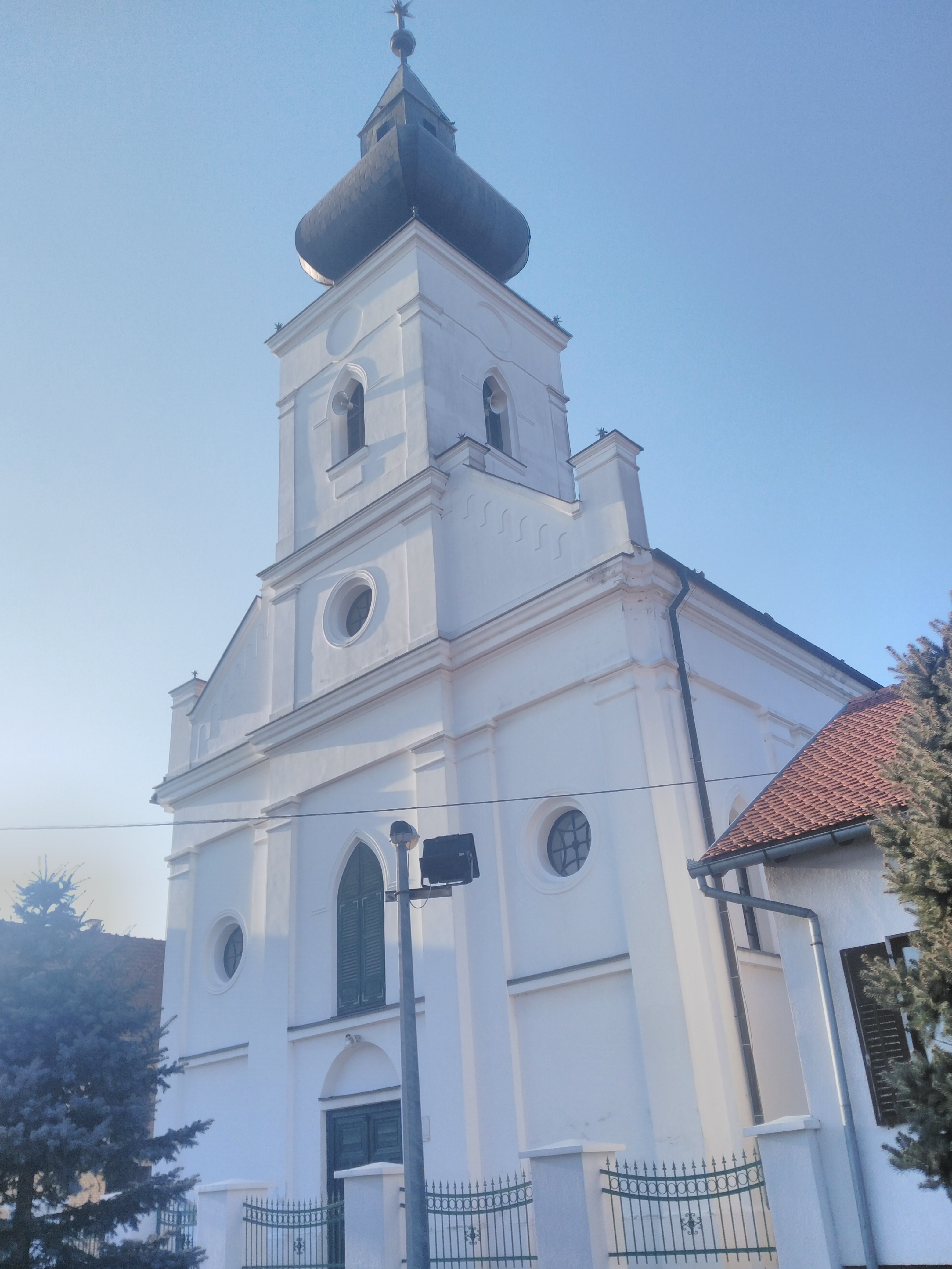 Korođ